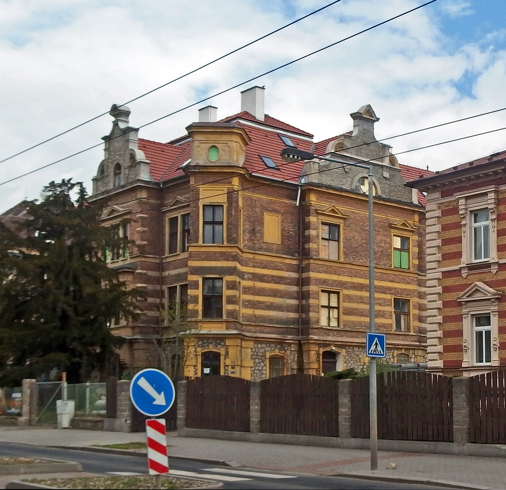 Chomutov, Čelakovského 854/12